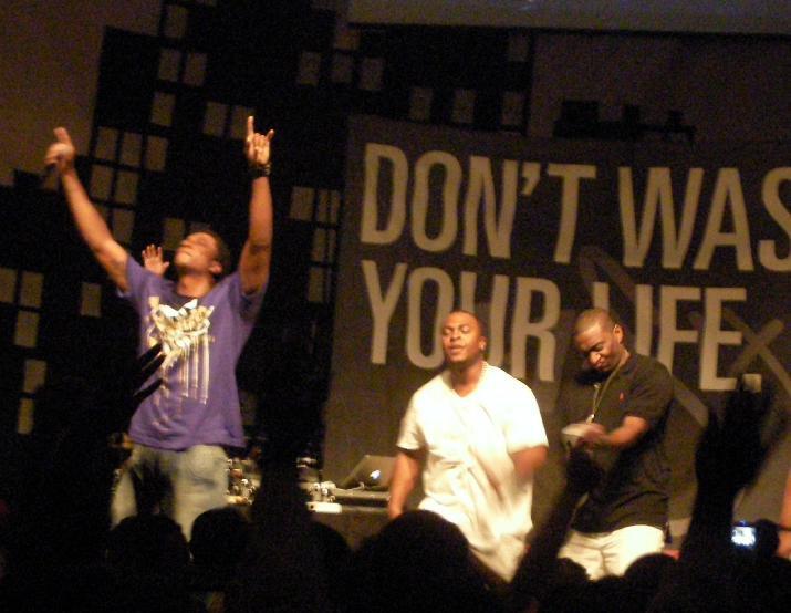 116 Clique on DWYL Tour 2009